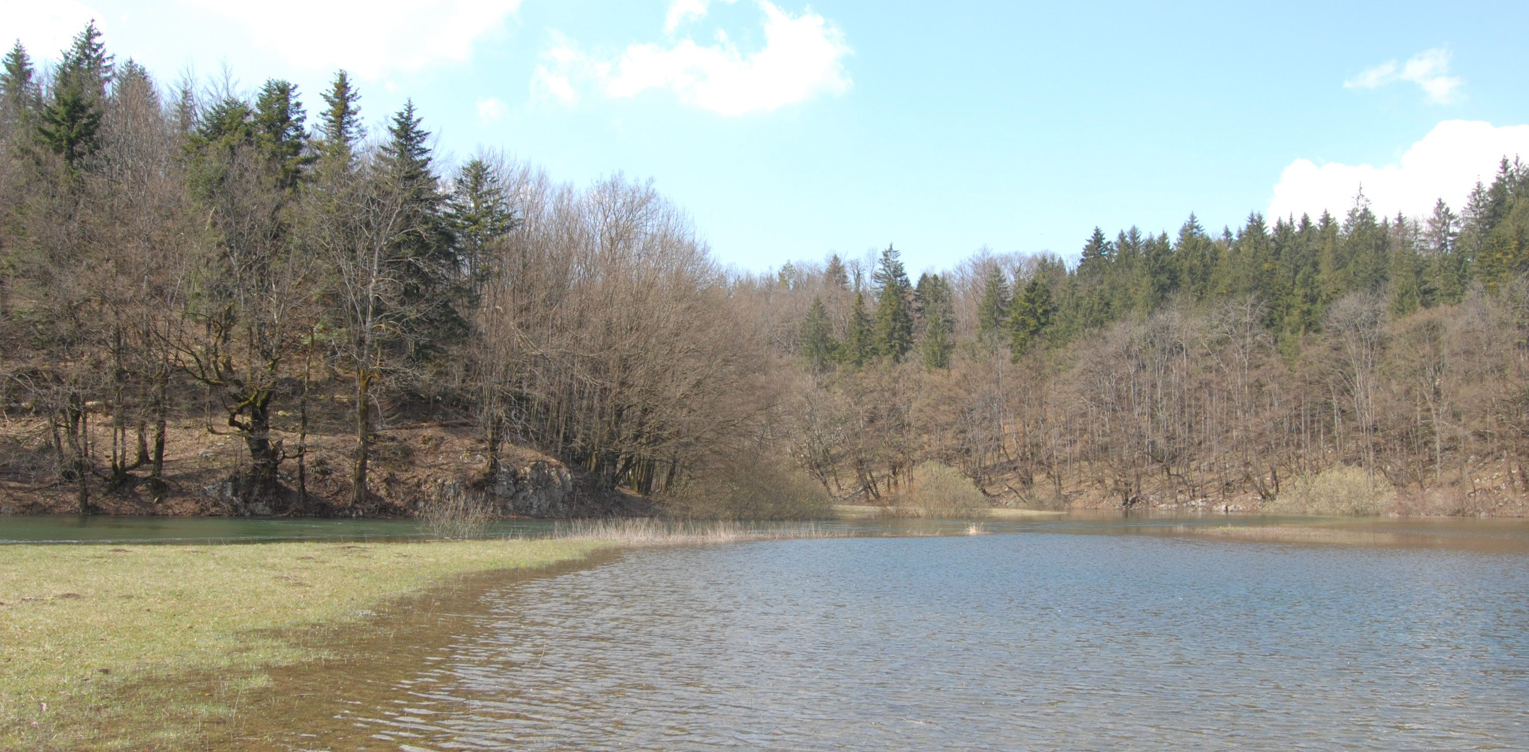 Karst field at Rakov Škocjan Regional Park — Slovenia. Taken 2008.